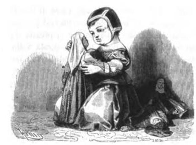 The most famous Italian historical romance,and the masterpiece of Alessandro Manzoni.